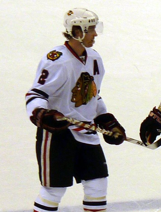 Chicago Blackhawks defenceman Duncan Keith in a game against the Vancouver Canucks at GM Place on November 22, 2009.